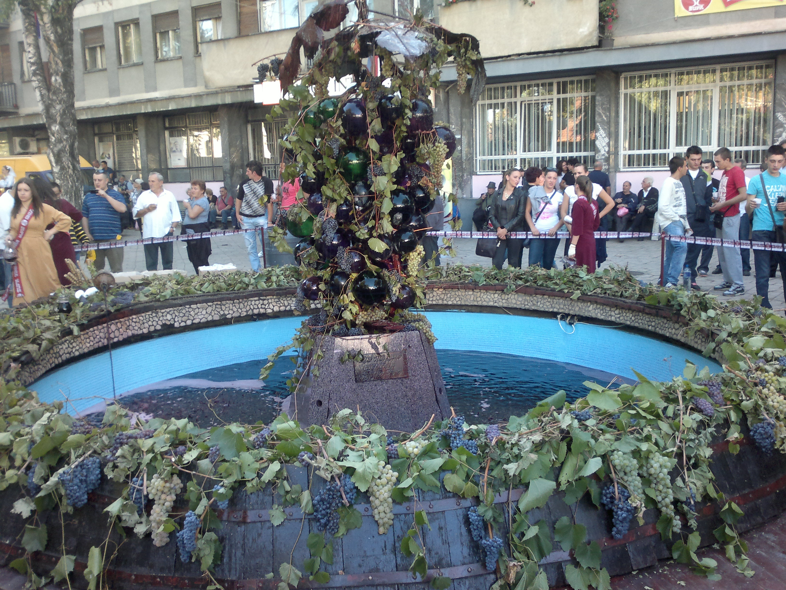 Fountain in Aleksandrovac, Serbia, full of red vine during "Župska berba"